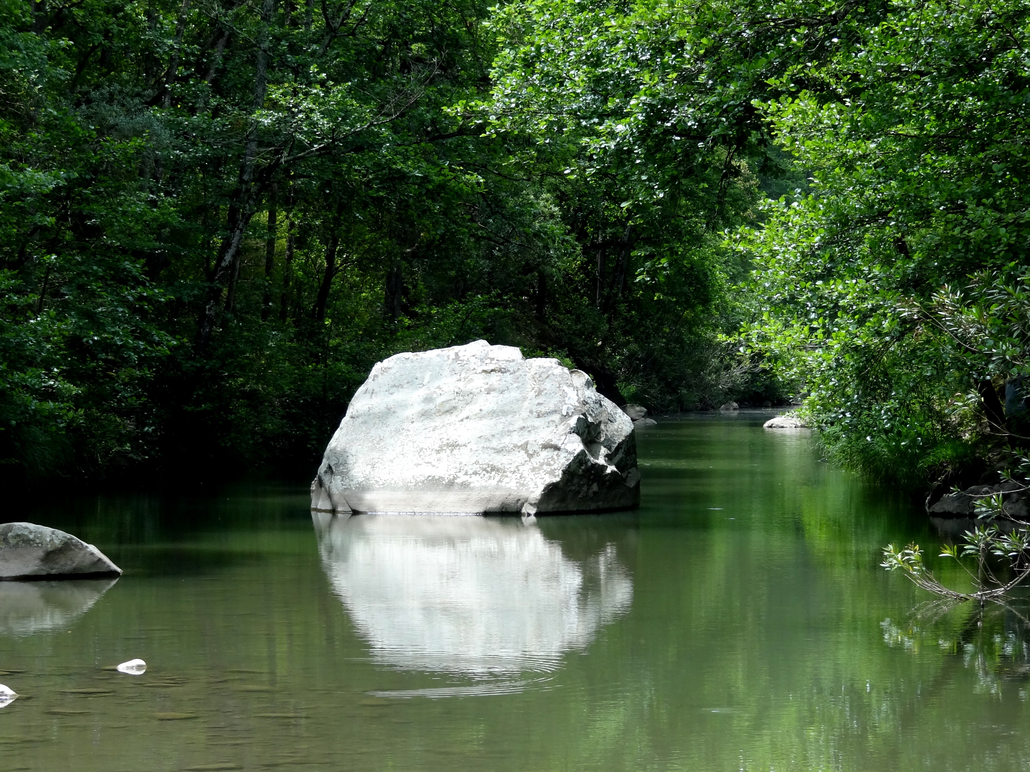 Bougous river, National Park of El-Kala, Algeria